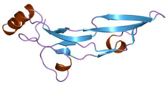 Cartoon representation of the molecular structure of protein registered with 1tfg code.